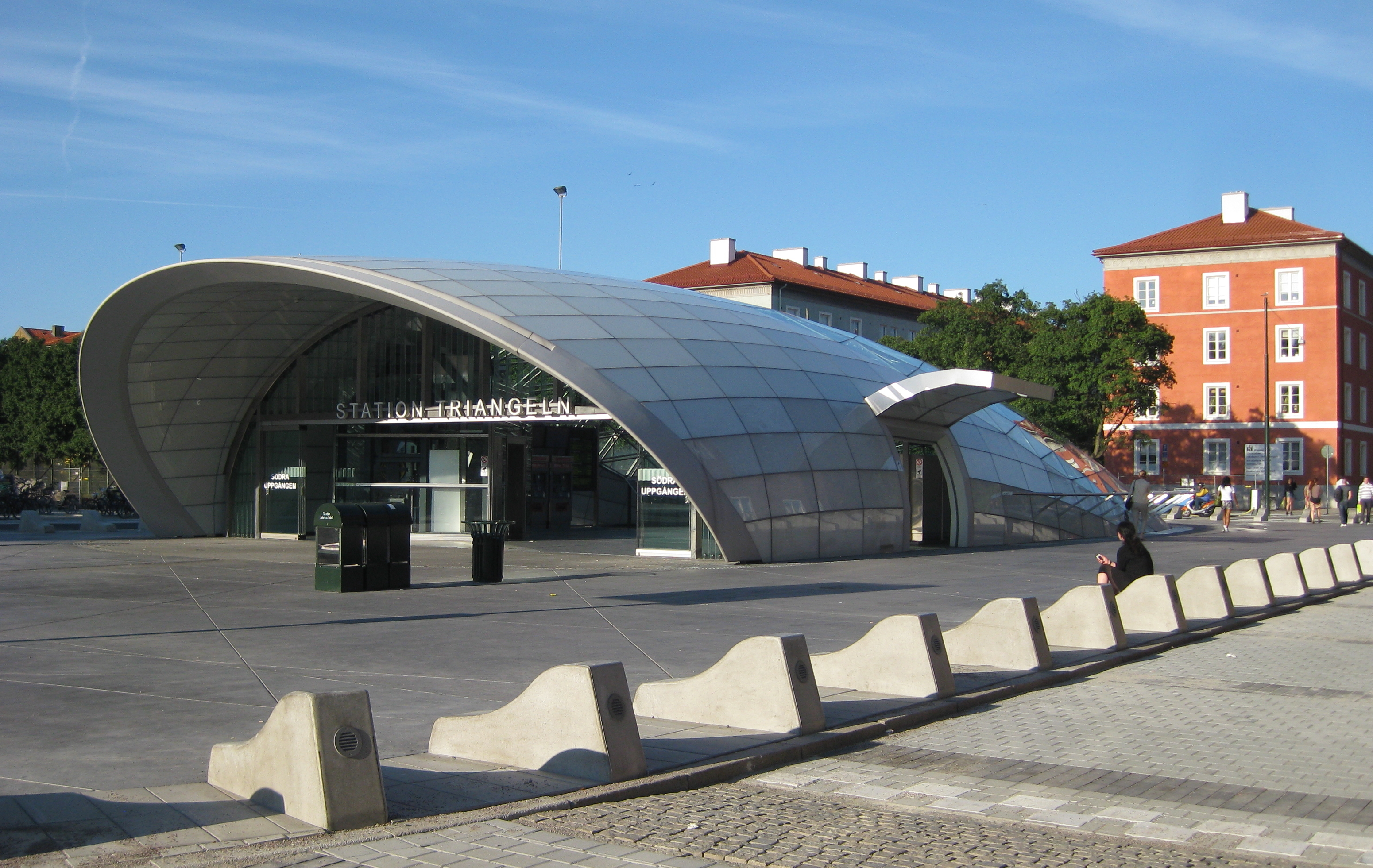 Triangeln underground railway station in Malmö, Sweden. Southern entrance.